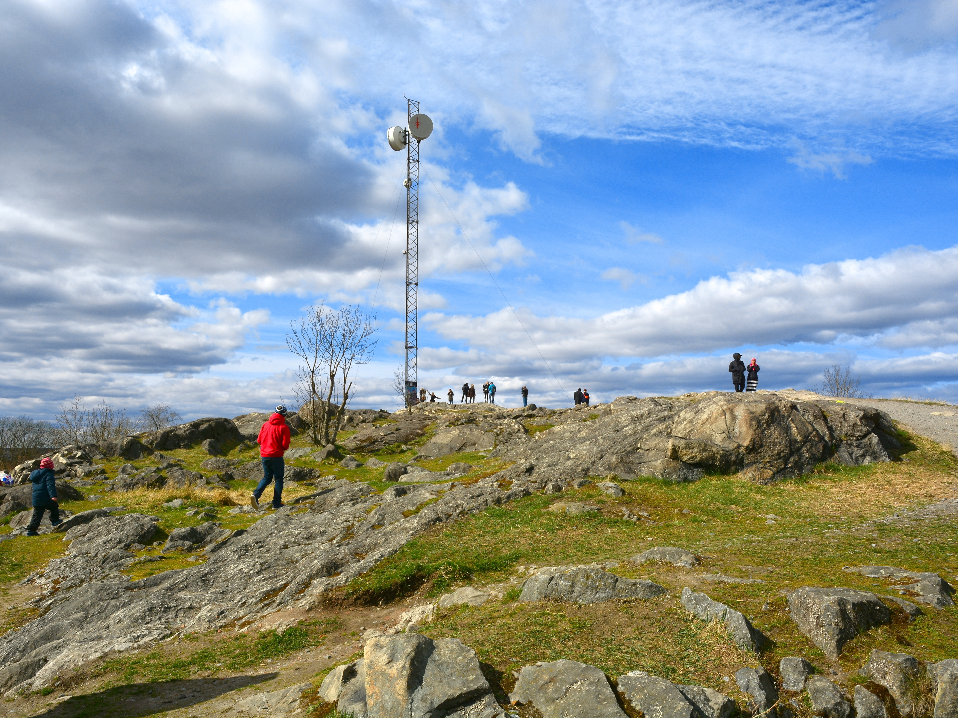 Partial view of Skinnarviksberget, Södermalm, Stockholm, Sweden.